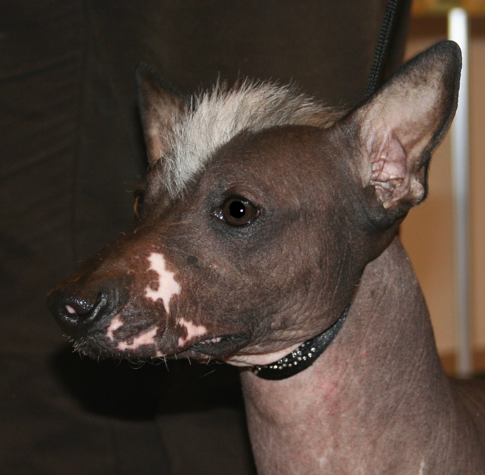 Peruvian Hairless Dog (medium-sized) during dogs show in Katowice, Poland